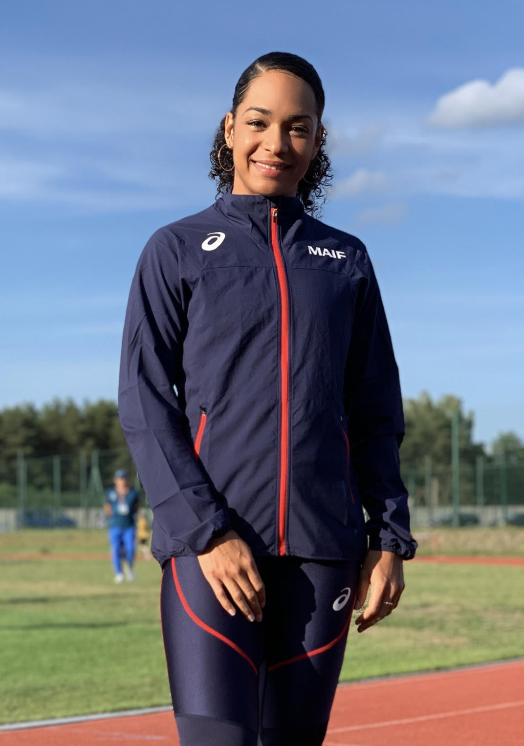 FINAL WARM UP OF THE 100M HURDLES TEAM OF FRANCE: 3rd PLACE